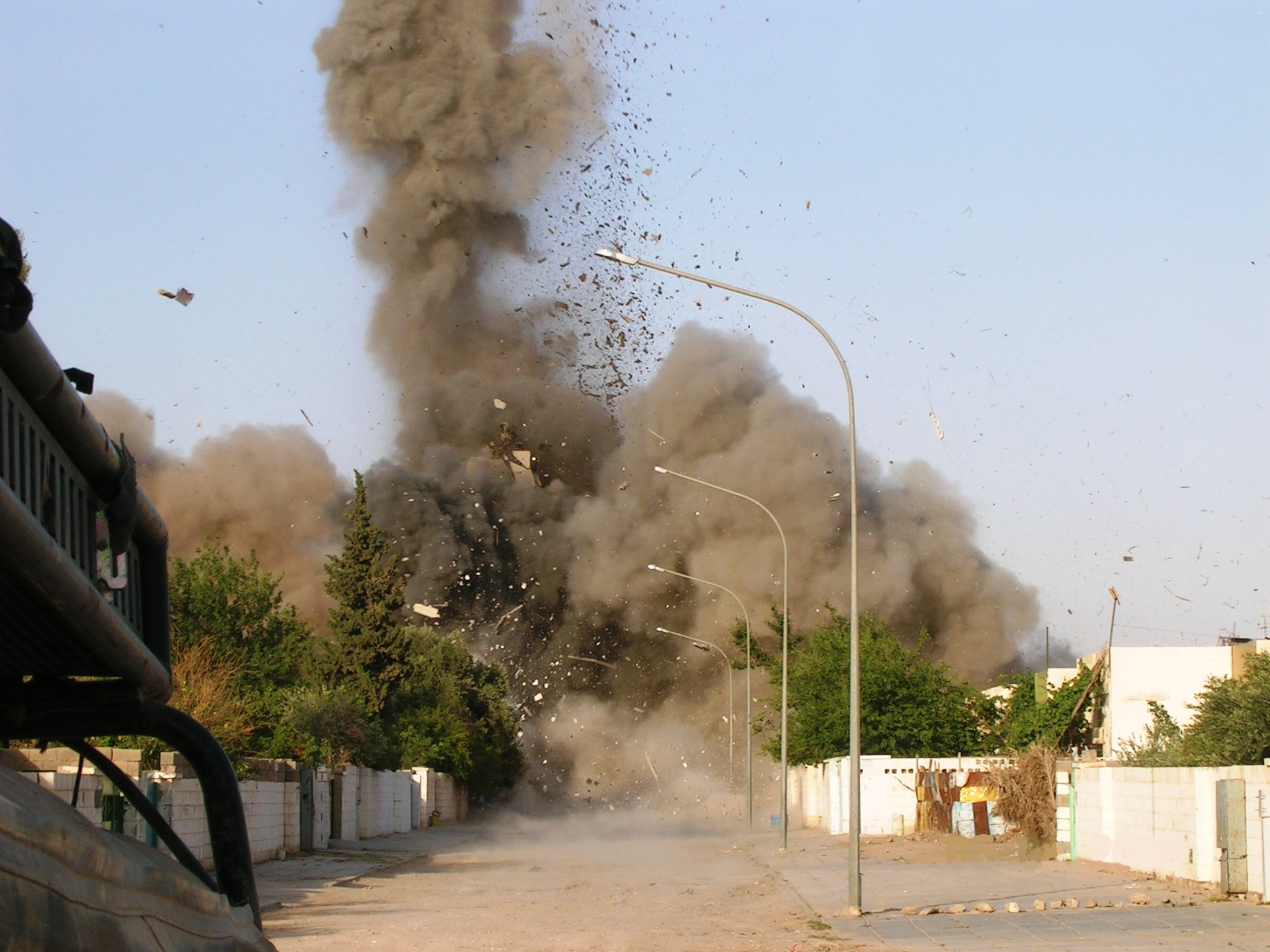 Demolition by US Marine Corps troops of a house in New Ubaydi, Iraq during Operation Matador, May 2005. Explosion during Operation Matador. An Iraqi house in New Ubaydi contained a large weapons cache; several other nearby weapons caches were consolidated on this location, and Marines blew the house with about 20 pounds of C4.